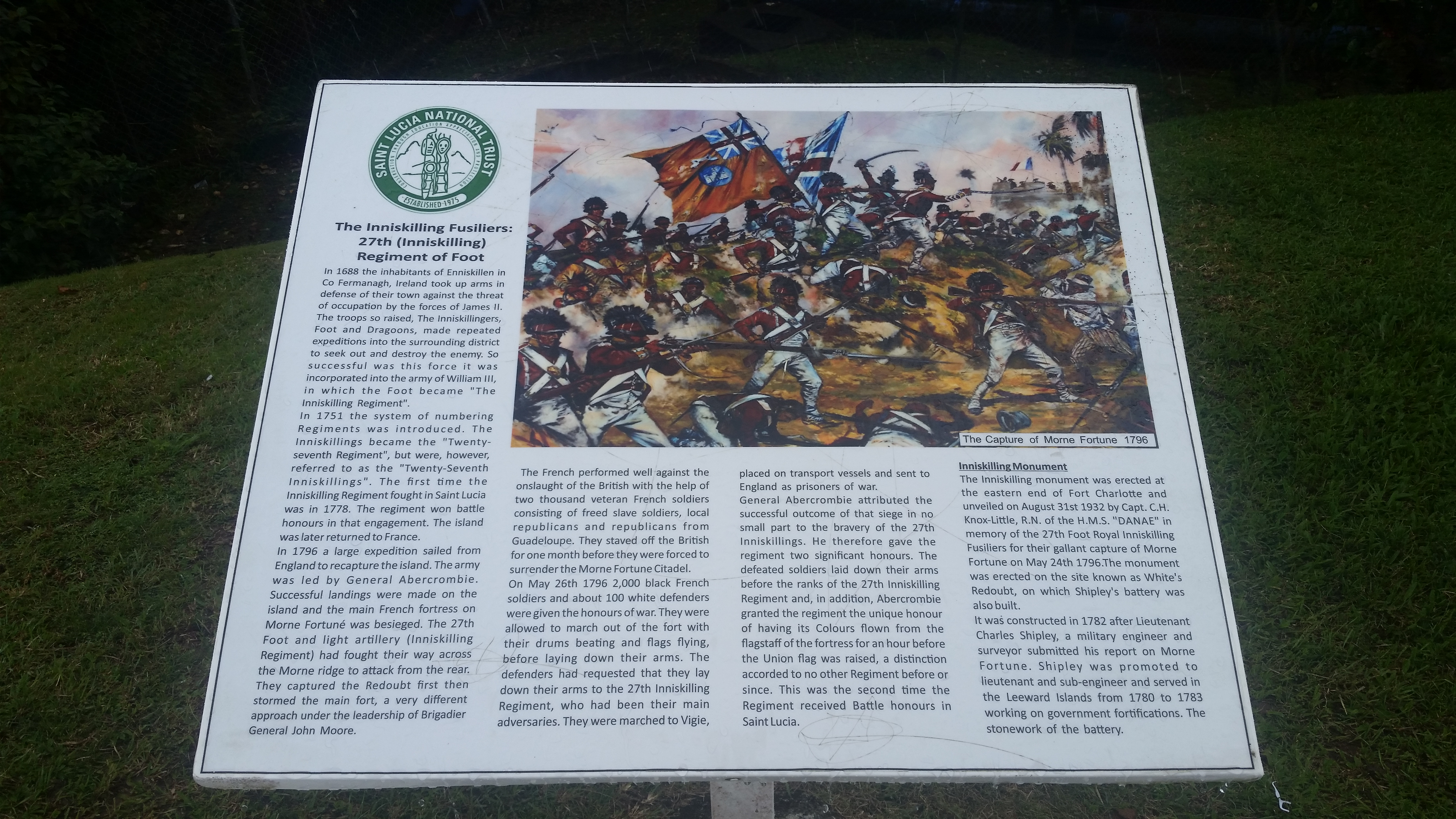 Morne Fortune historical marker for the Inniskilling Monument